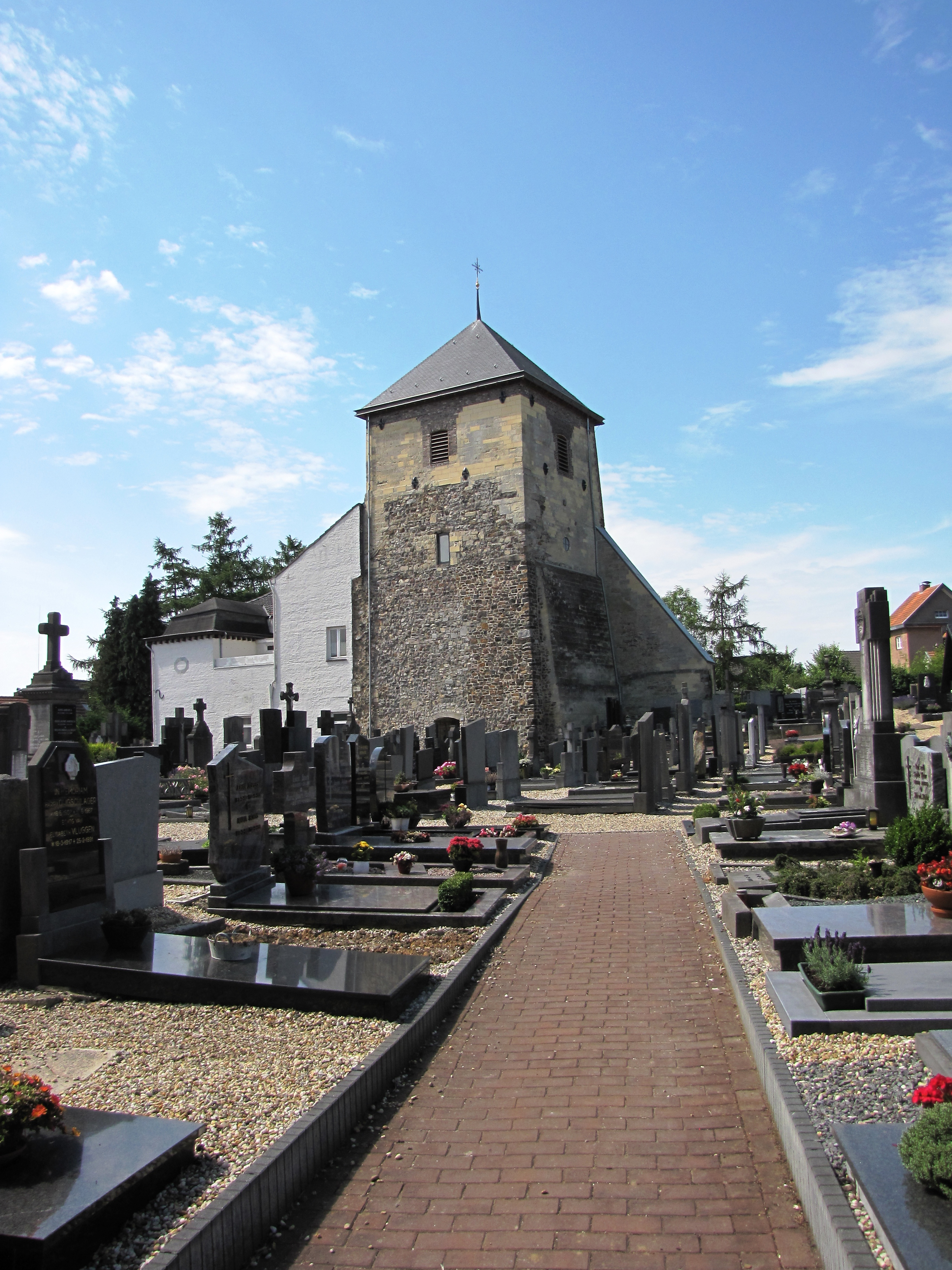 old church from Gulpen,Limburg,The Netherlands